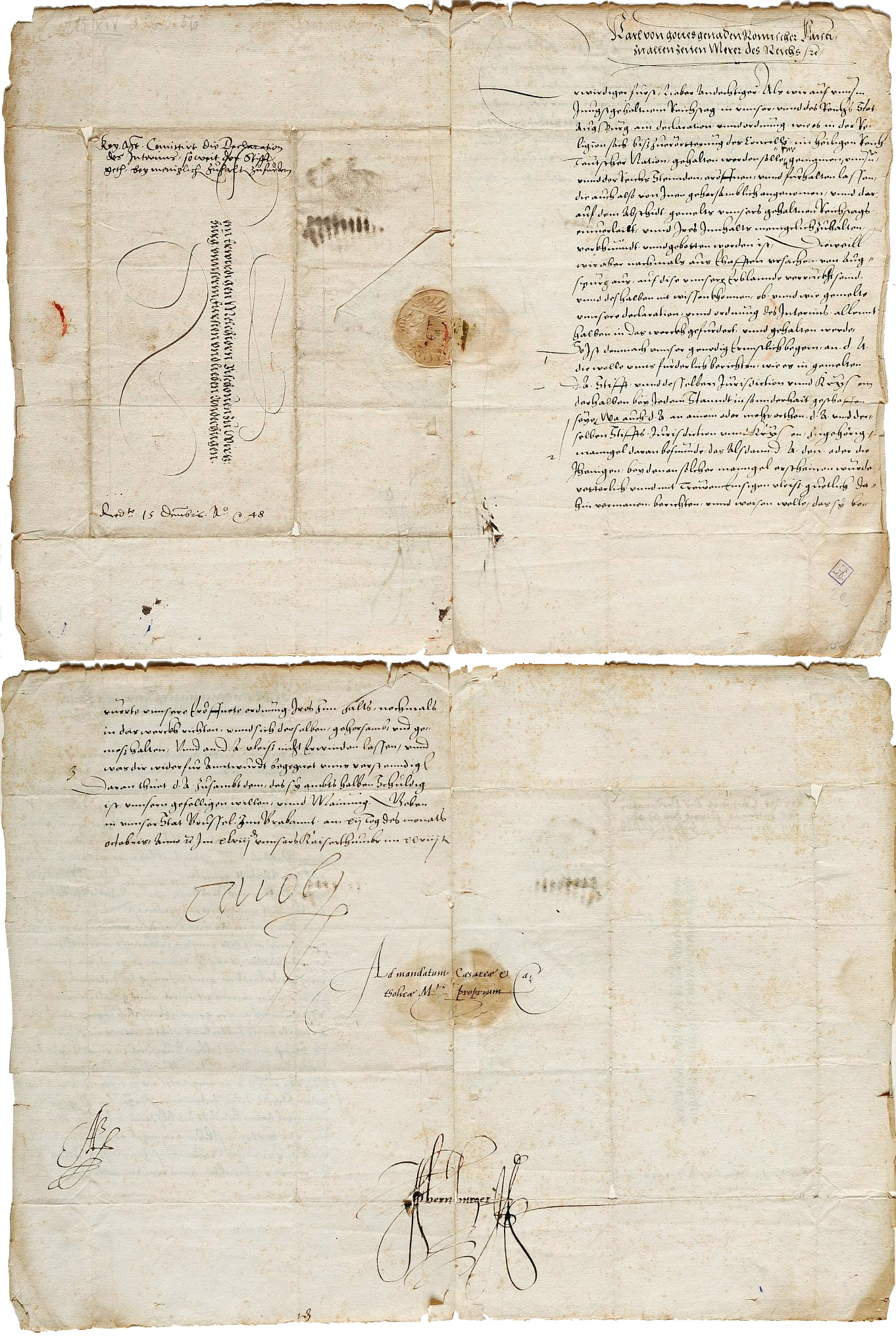 A letter, dated 1548-10-12, by the Emperor Charles V to the Bishop of Würzburg, demanding the full implementation of the Augsburg Interim in his territories.